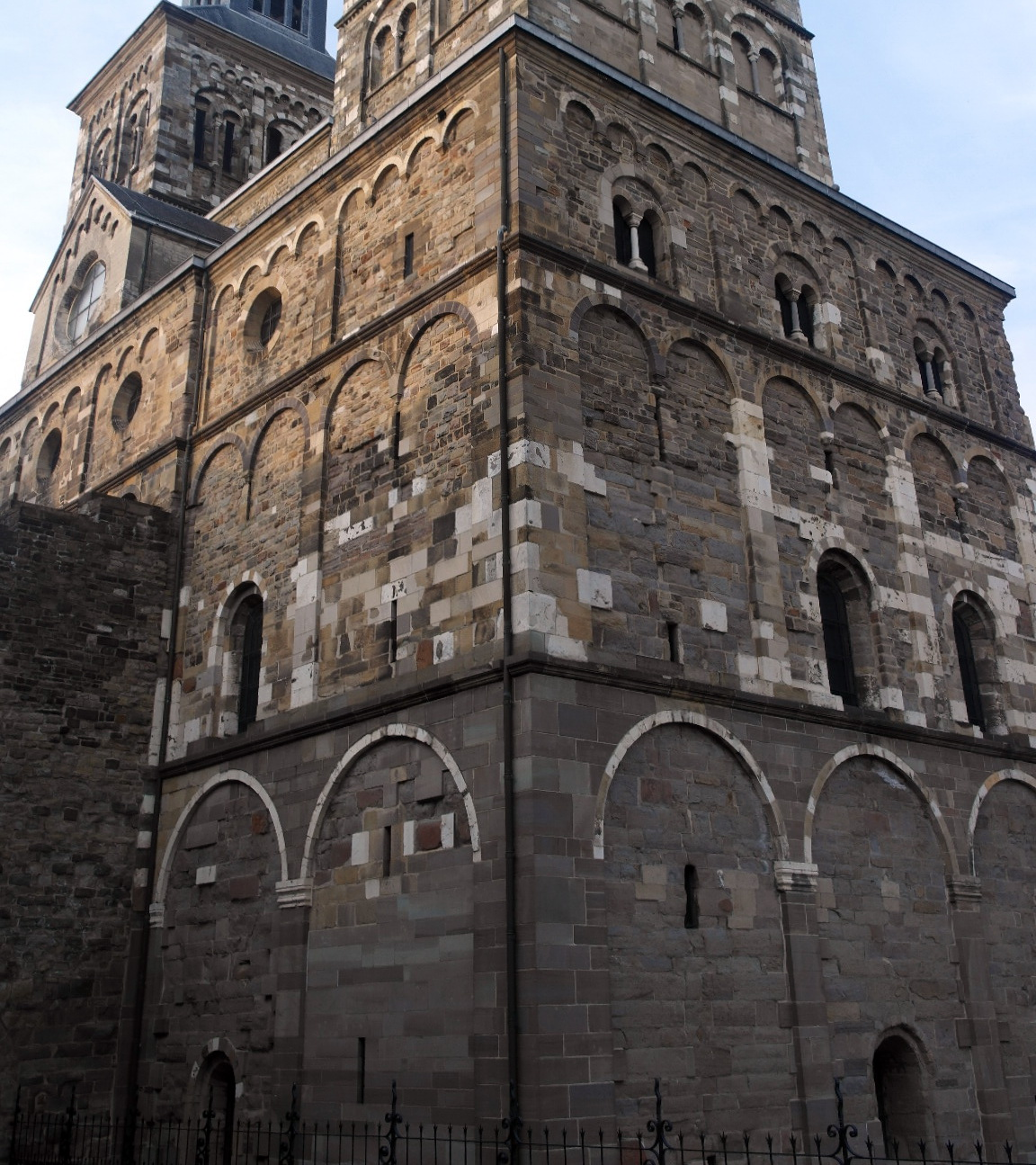 View from the southwest of the the 12th-century Westwork of the Basilica of Saint Servatius in Maastricht, the Netherlands.